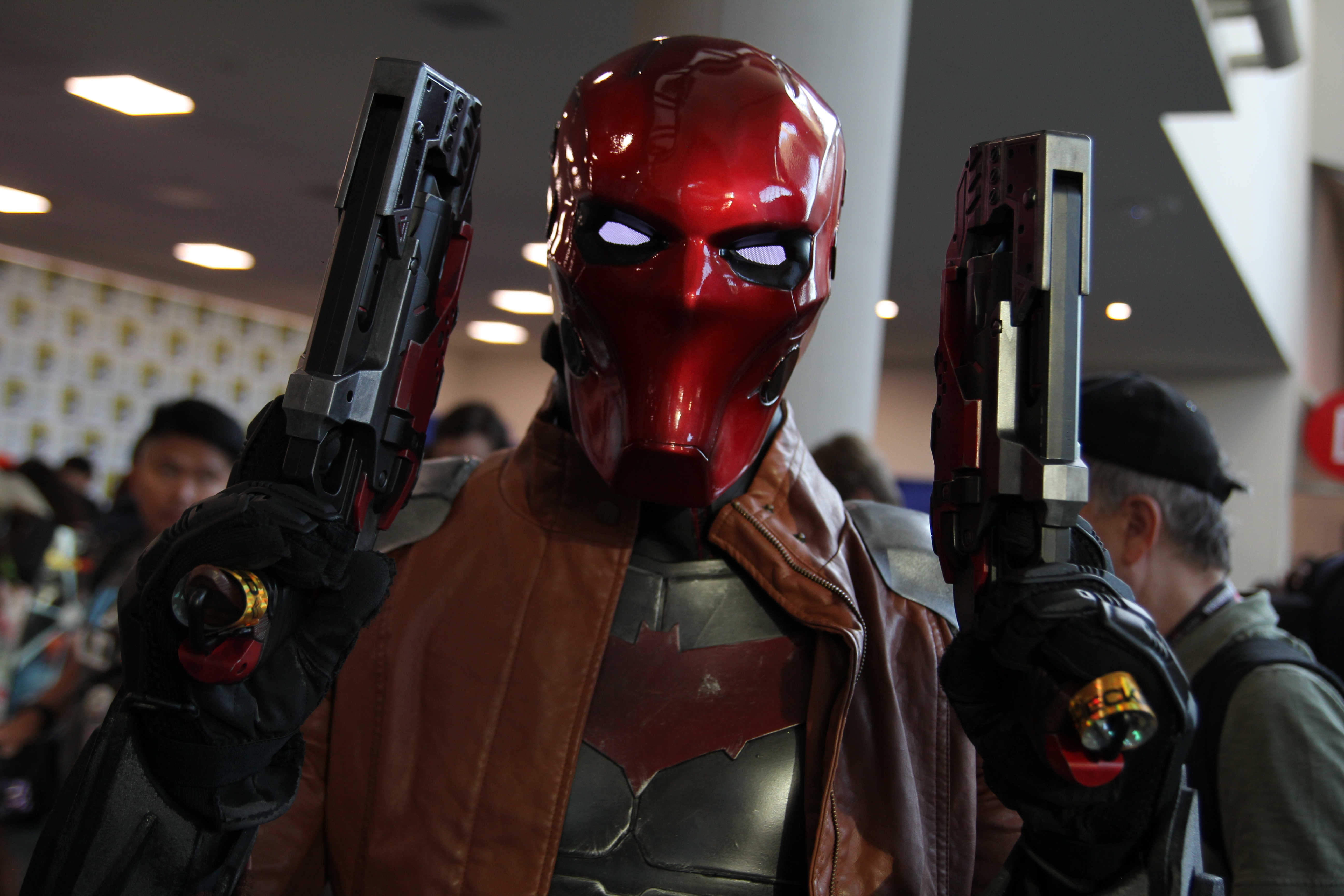 Red Hood cosplayer at San Diego Comic-Con 2019